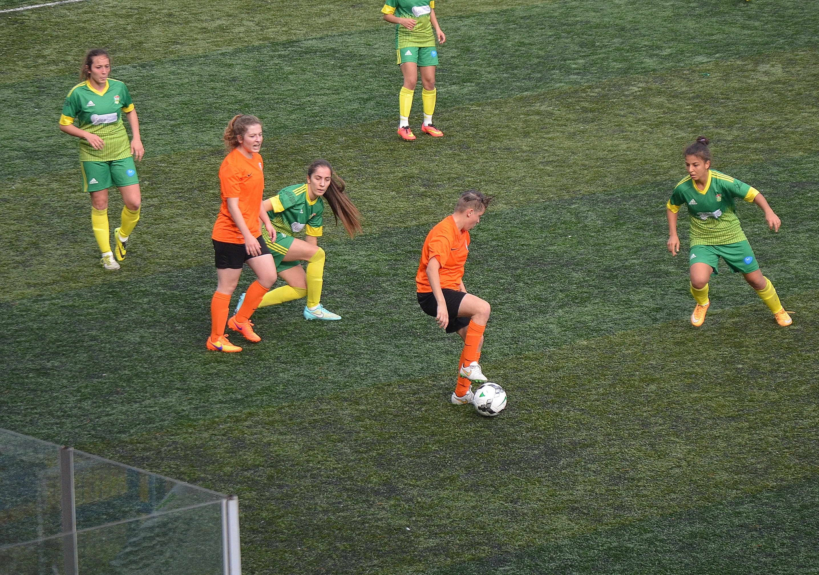 Kireçburnu Spor vs 1207 Antalya Muratpaşa Belediyespor 2015-16 season match